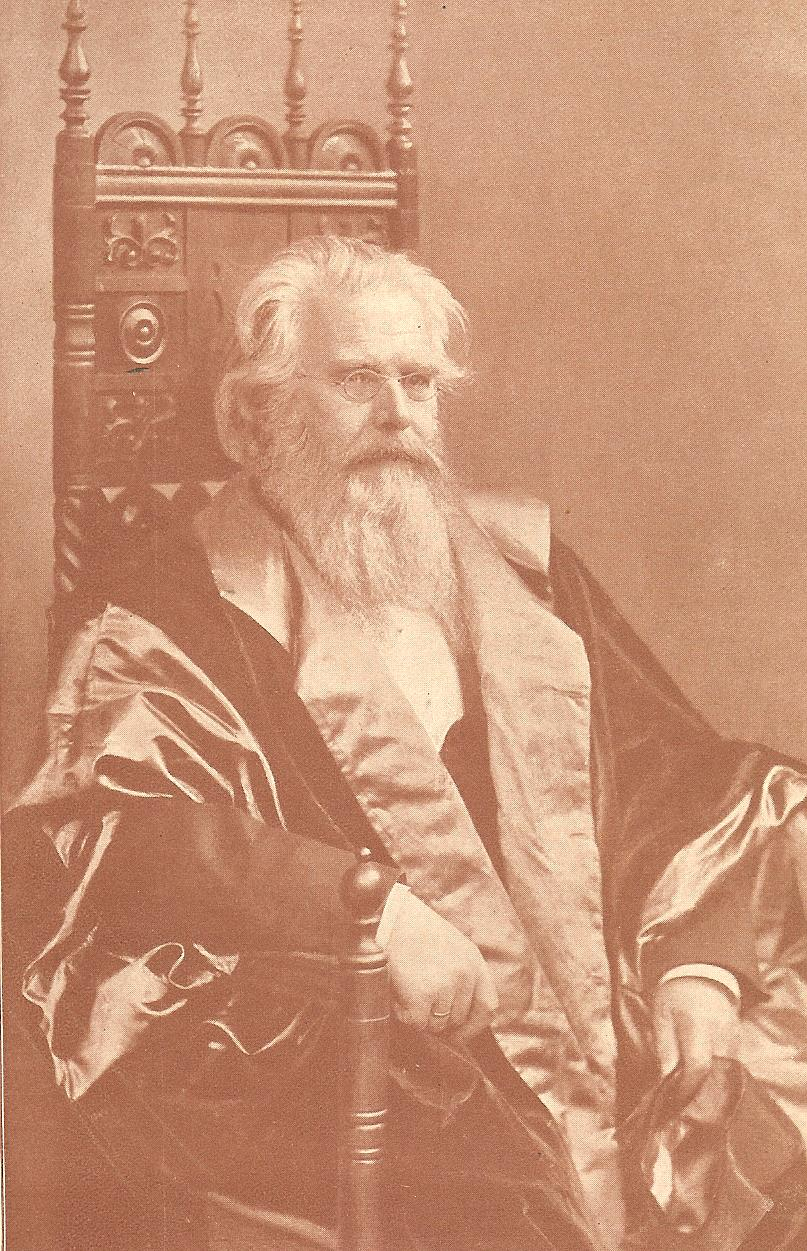 Portrait of Albert Becker (1834-1899)